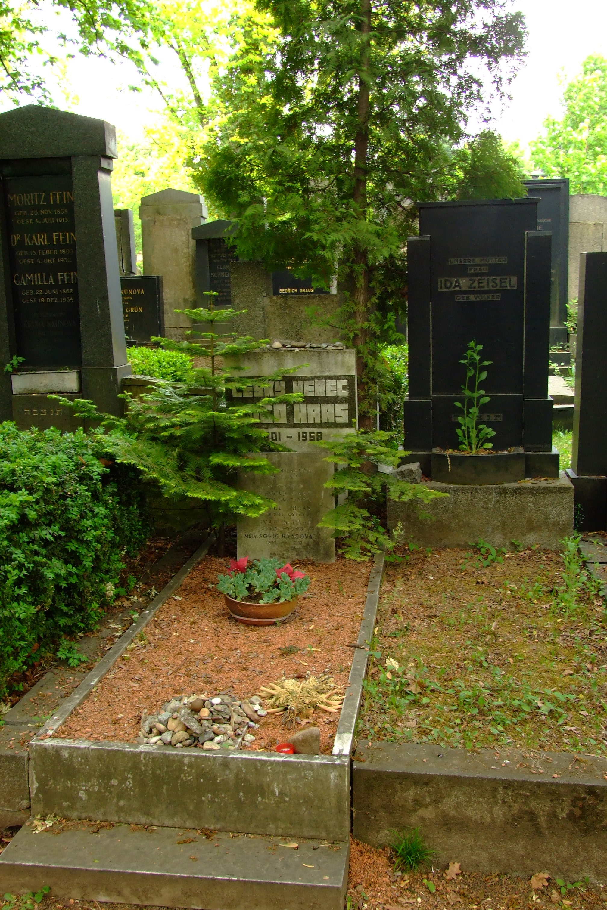 Grave of a Czech actor Hugo Haas from the times of the first Czechoslovak republic in the Jewish cemetery in Brno-Židenice